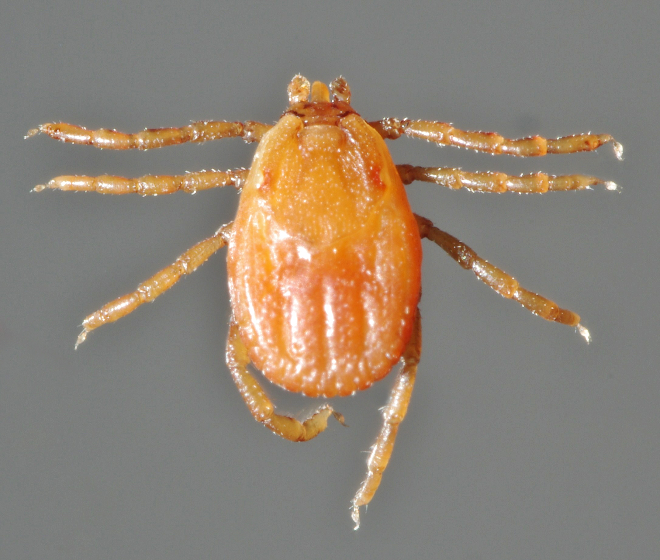 Tropical dog tick, Rhipicephalus sanguineus, female.